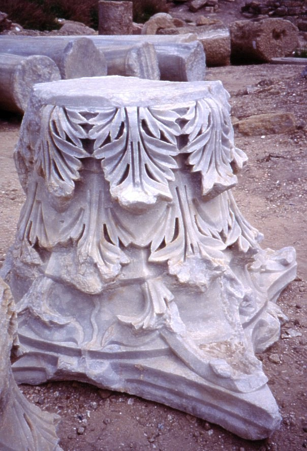 Part of a column, Caesarea, Israel